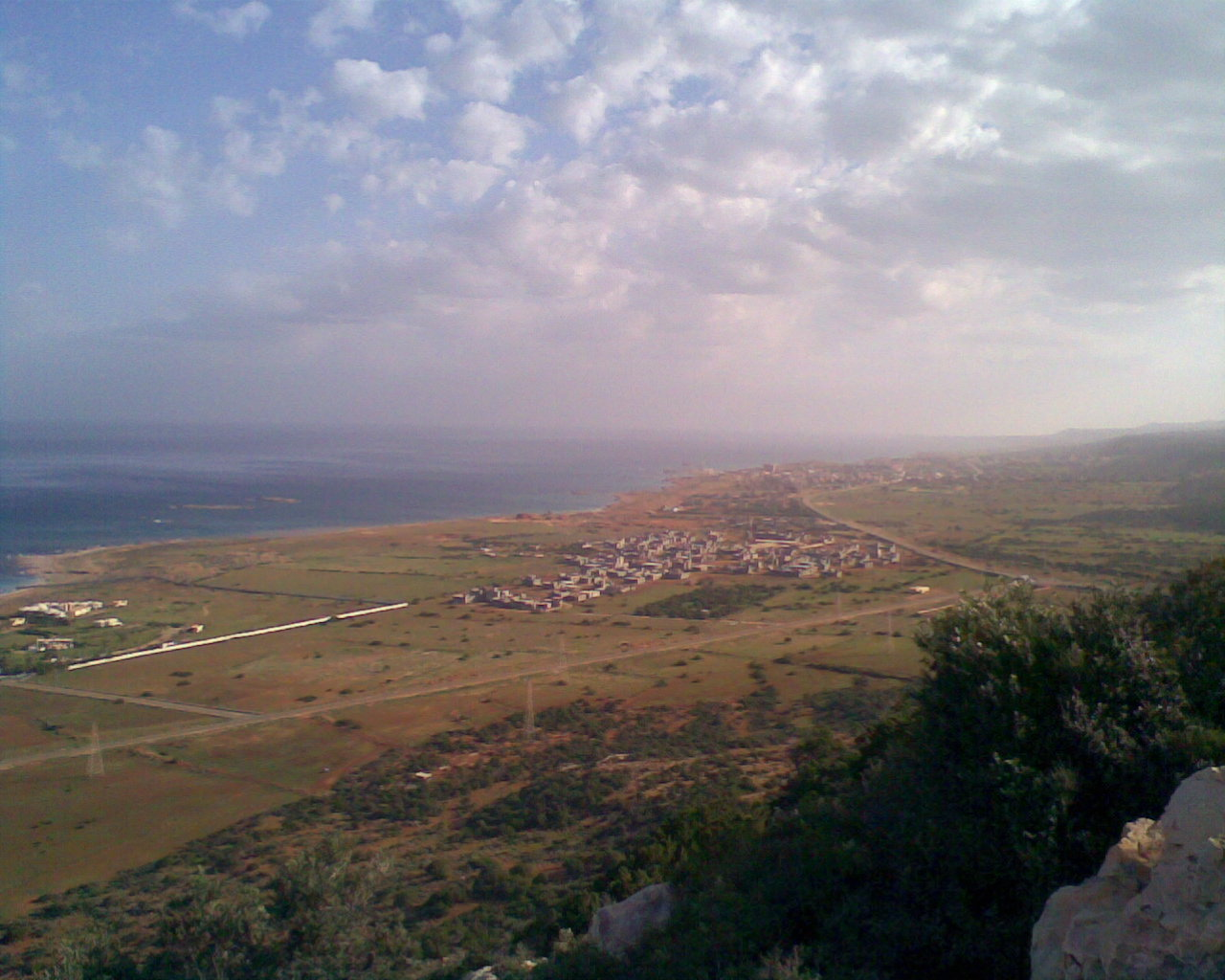 Modern town of Susah, near the place of the Ancient city of Apollonia, Libya.